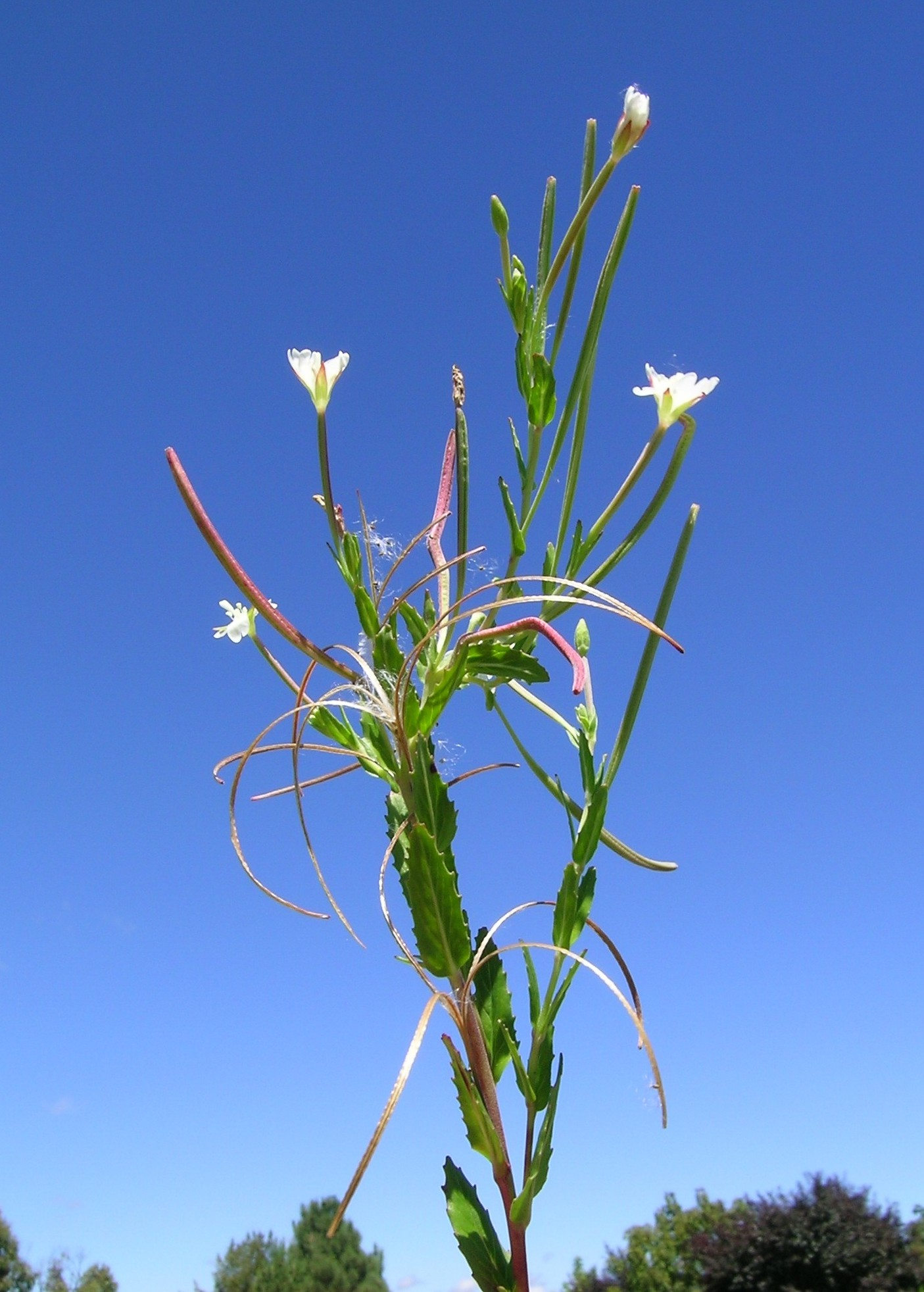 Flowers are solitary in the upper leaf-axils. There are 4 not-persistent sepals, 4 purplish pink or white petals to 13 mm long and 8 stamens; on the tip of an elongate floral tube. Fruit are slender, cylindrical, shortly-hairy capsules 3–7.5 cm long; curling after splitting open.